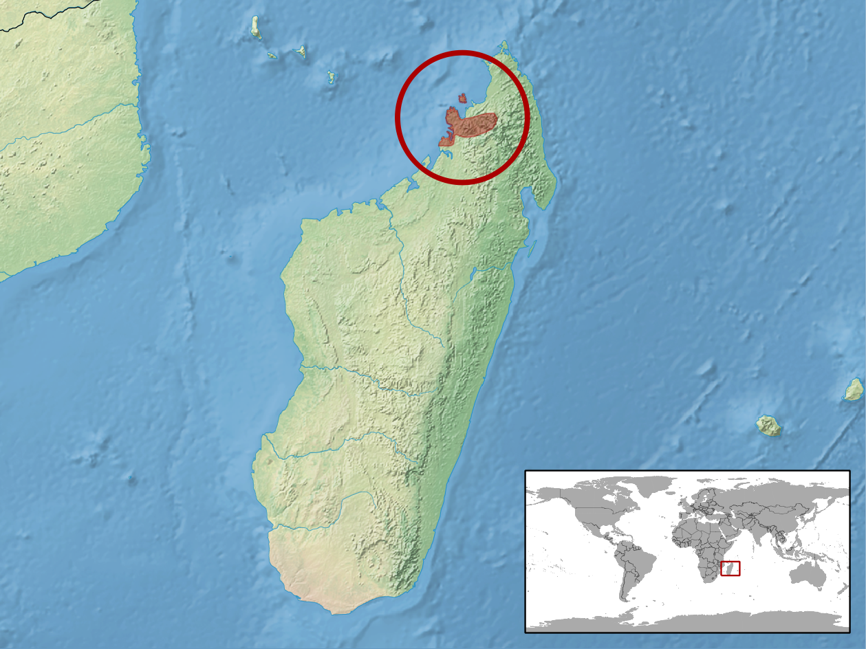 geographic distribution of Brookesia minima (Native: Madagascar)